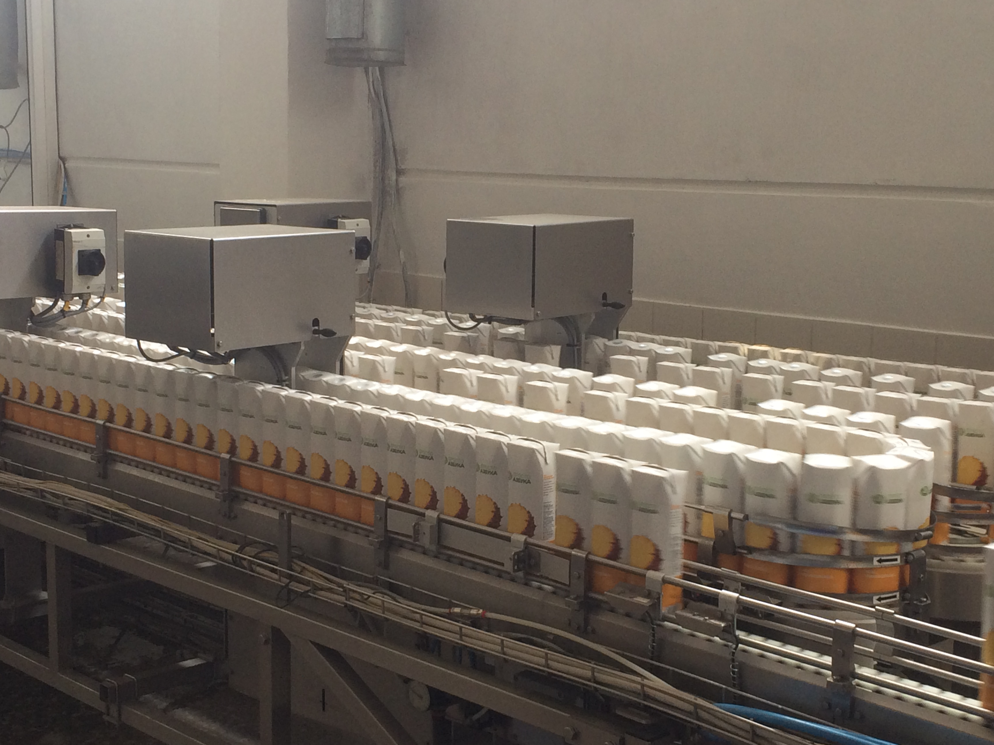 Natural Juice production at Noyan factory, Armenia.